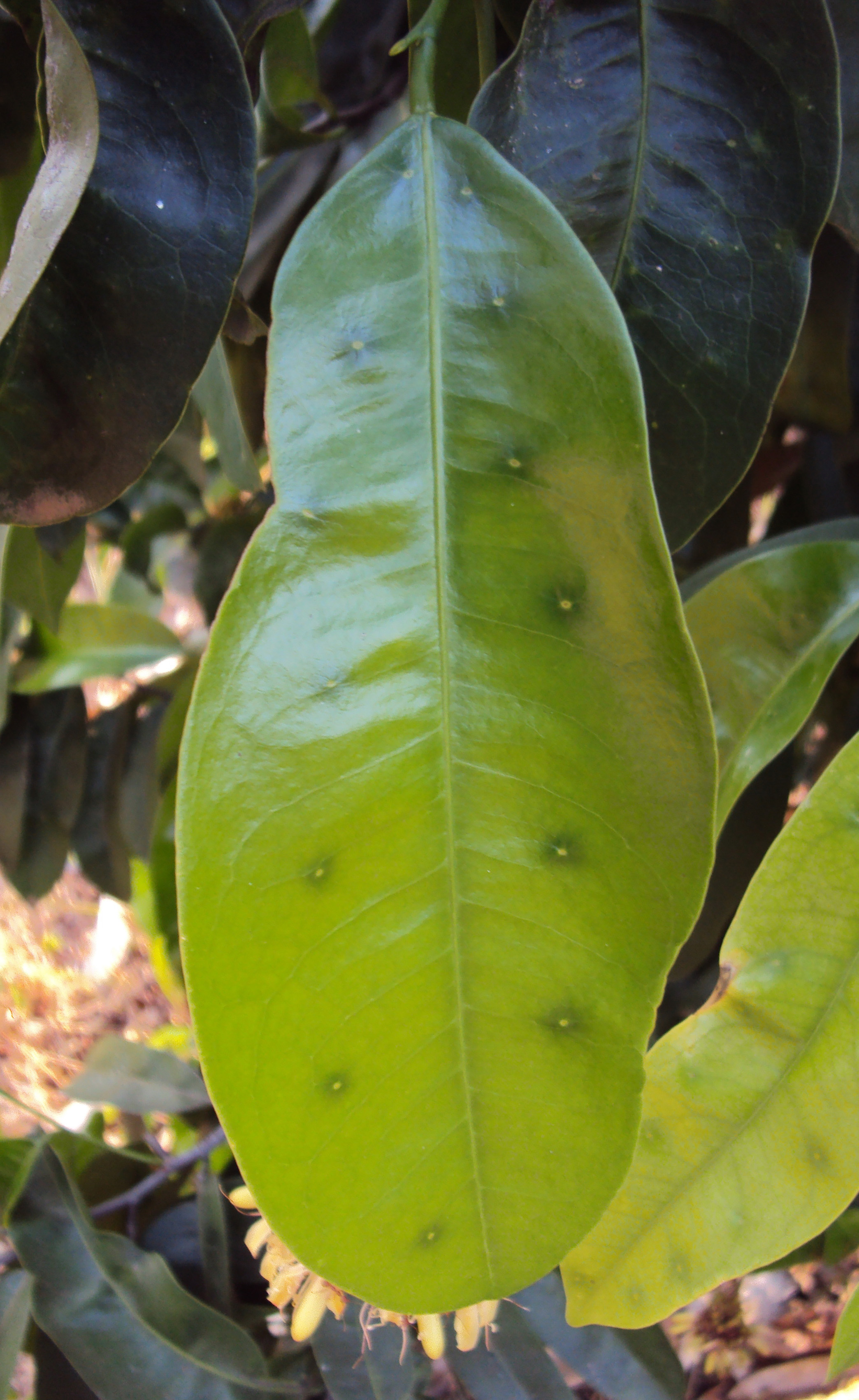 Quassia indica